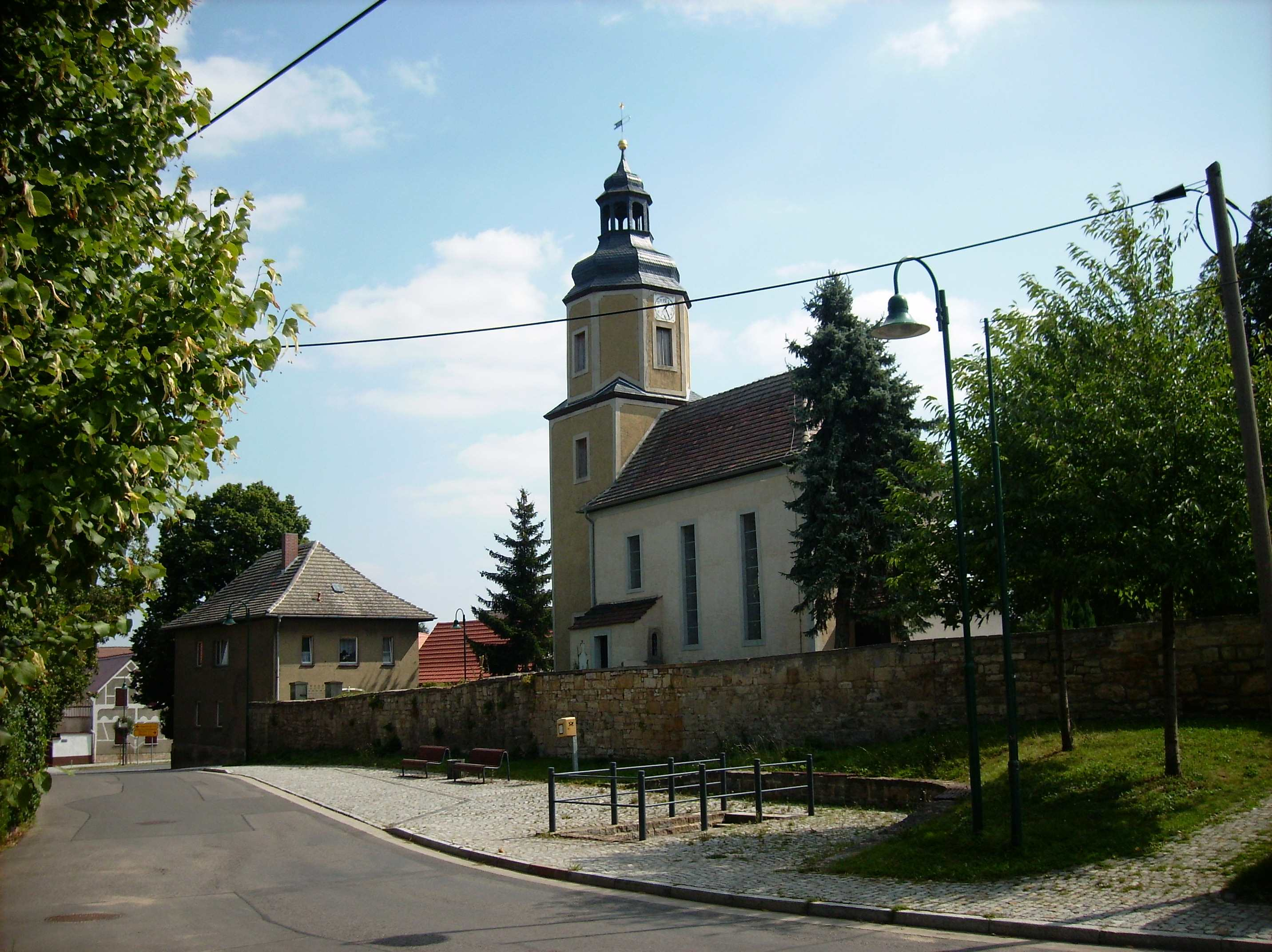 Church of the village of Neidschütz (Naumburg, district of Burgenlandkreis, Saxony-Anhalt9